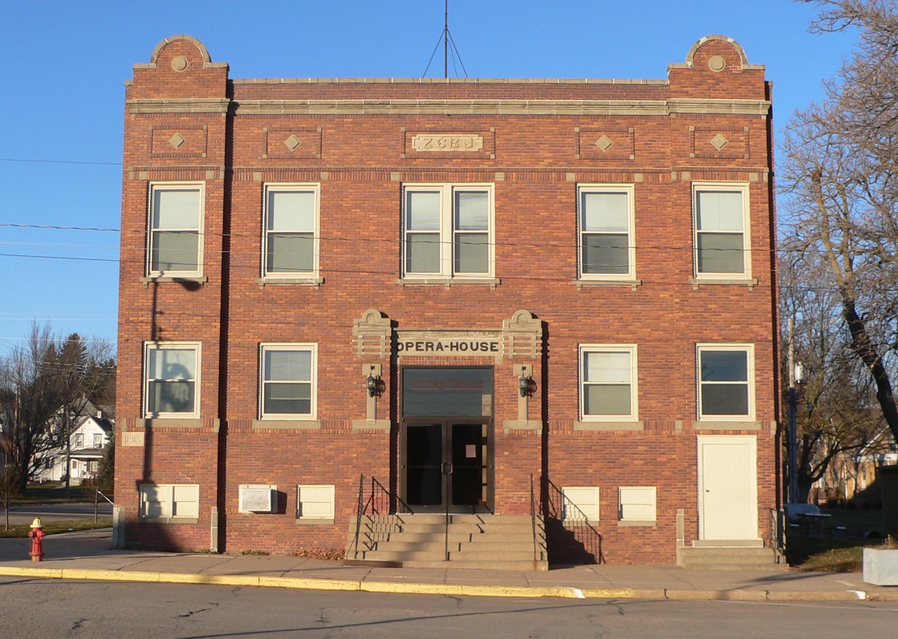 Z.C.B.J. Opera House in Clarkson, Nebraska; seen from the east.